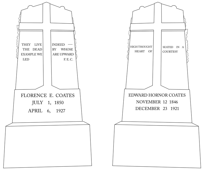 Digital drawing of Philadelphia poet Florence Earle Coates' headstone alongside her husband, Edward H. Coates' headstone. They are buried at the Church of the Redeemer Churchyard (Episcopal) in Bryn Mawr, PA. The inscription on Mrs. Coates' headstone is taken from a memorial poem she wrote for Eliza Sproat Turner (who died ca. 1903) entitled "In Memory". Florence's husband's inscription is based on Sir Philip Sydney's description of an honorable man and gentleman.